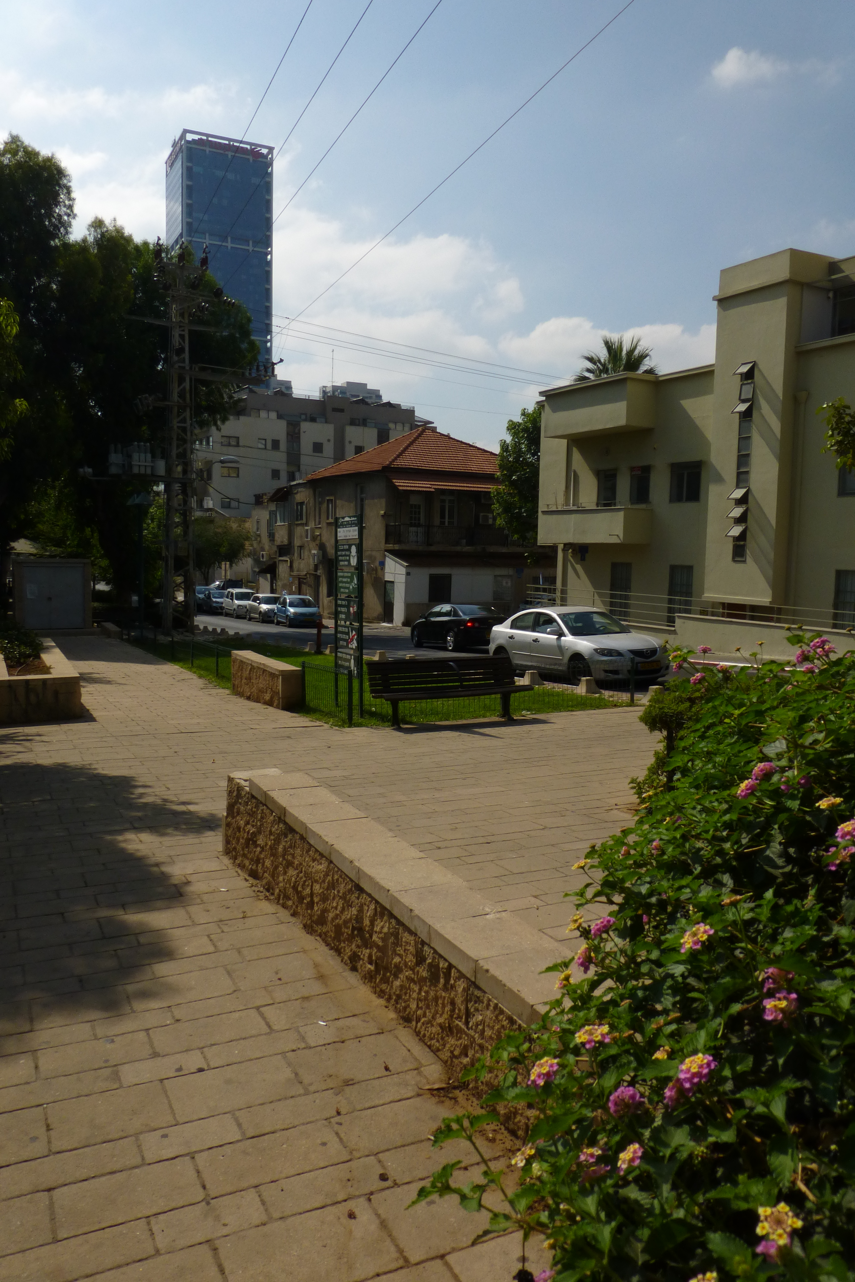 Electra Tower